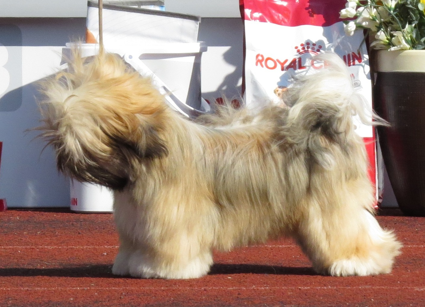 Shih Tzu in Tallinn duo CACIB, 17-18 Aug 2013, Best in Puppies competition